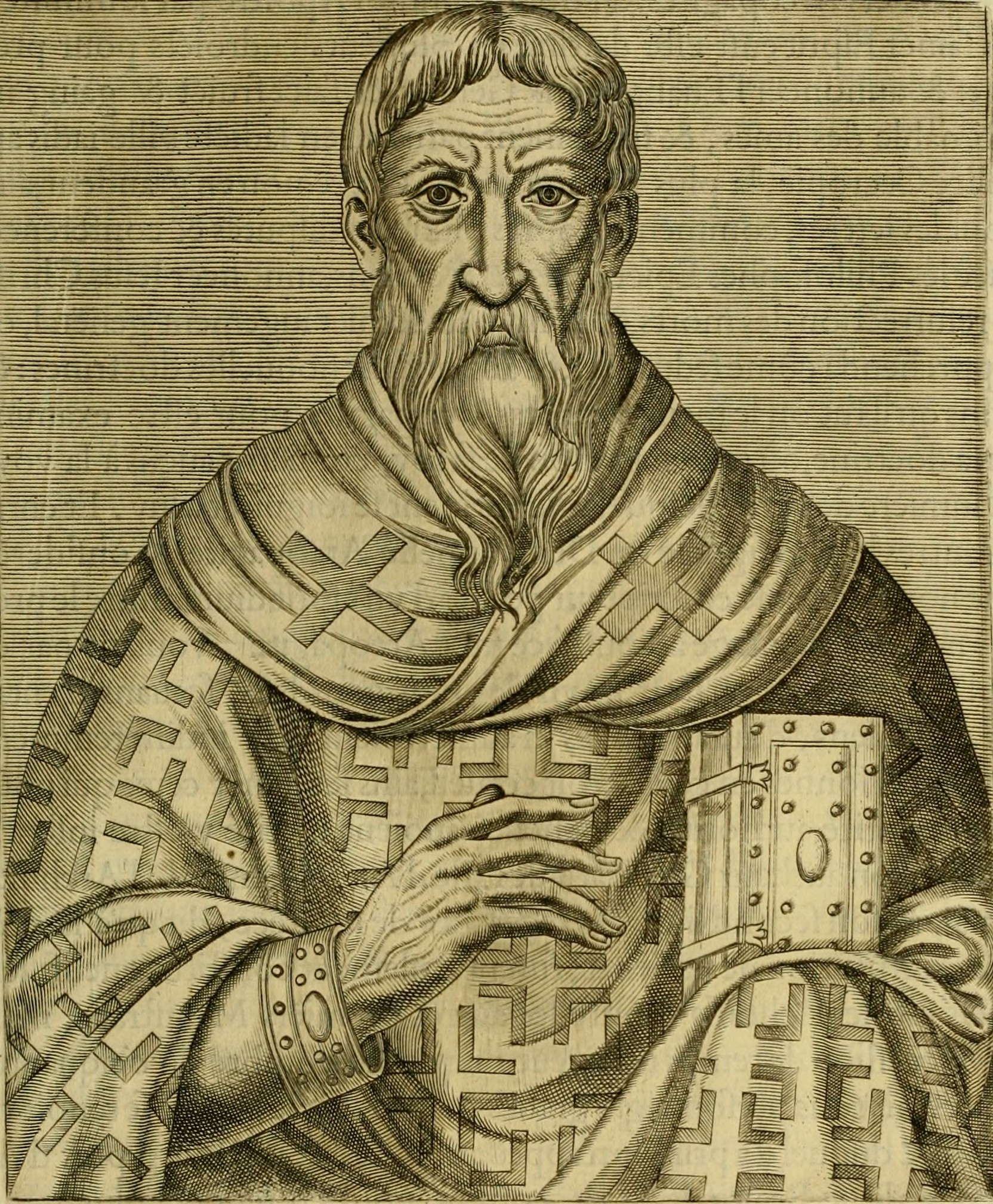 "Denis the Areopagite, first apostle to the Gauls", from book 1, folio 1 recto of Les vrais pourtraits et vies des hommes illustres grecz, latins et payens (1584) by André Thevet.